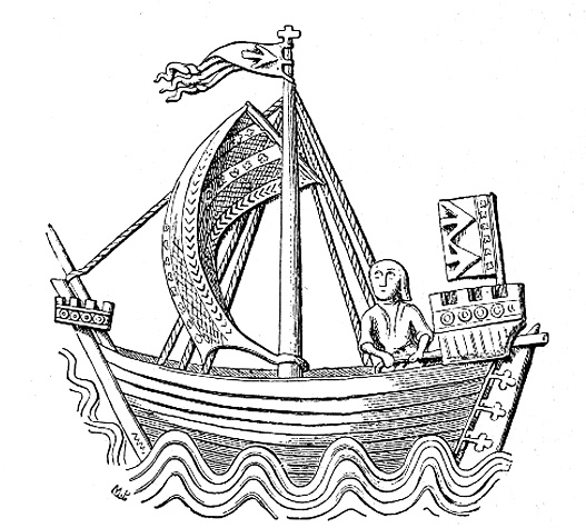 Medieval depiction of a cog on a seal of Stralsund